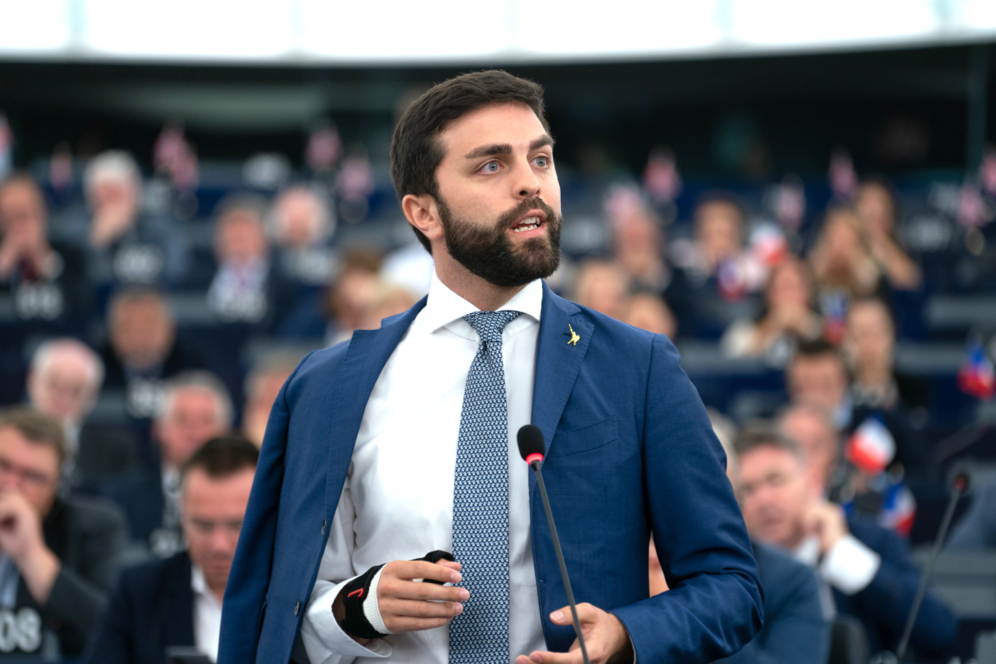 This photo is free to use under Creative Commons license CC-BY-4.0 and must be credited: "CC-BY-4.0: © European Union 2019 – Source: EP". No model release form if applicable. For bigger HR files please contact: webcom-flickr(AT)